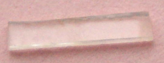 a piece of single crystal of GaN, about 3 mm in length